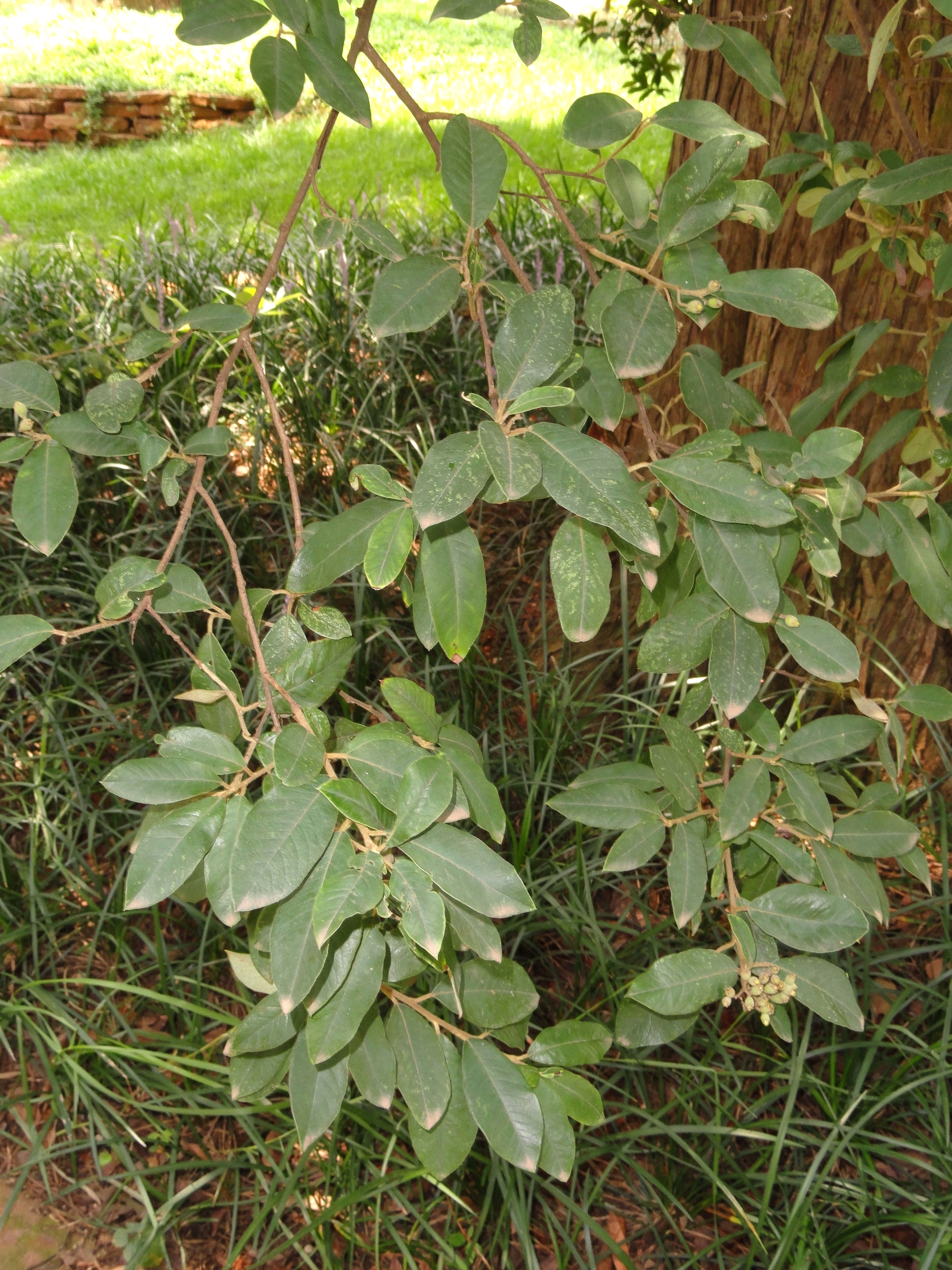 Plant specimen in the Kunming Botanical Garden, Kunming, Yunnan, China.